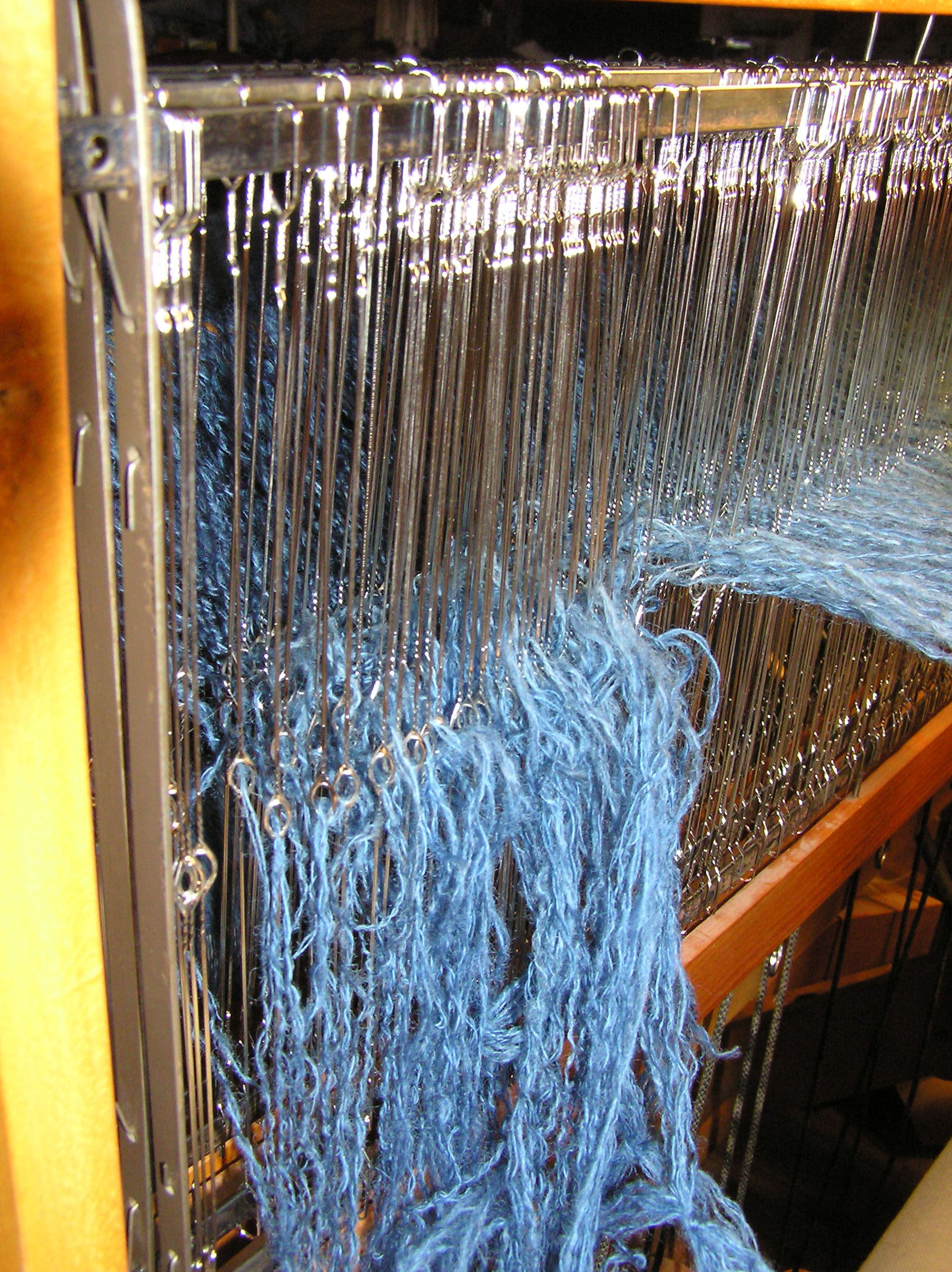 A shot of a loom in the process of warping- shows a harness full of heddles, half of which have the warp attached to the beam, half of which don't. The warp has been threaded through all of the heddles.